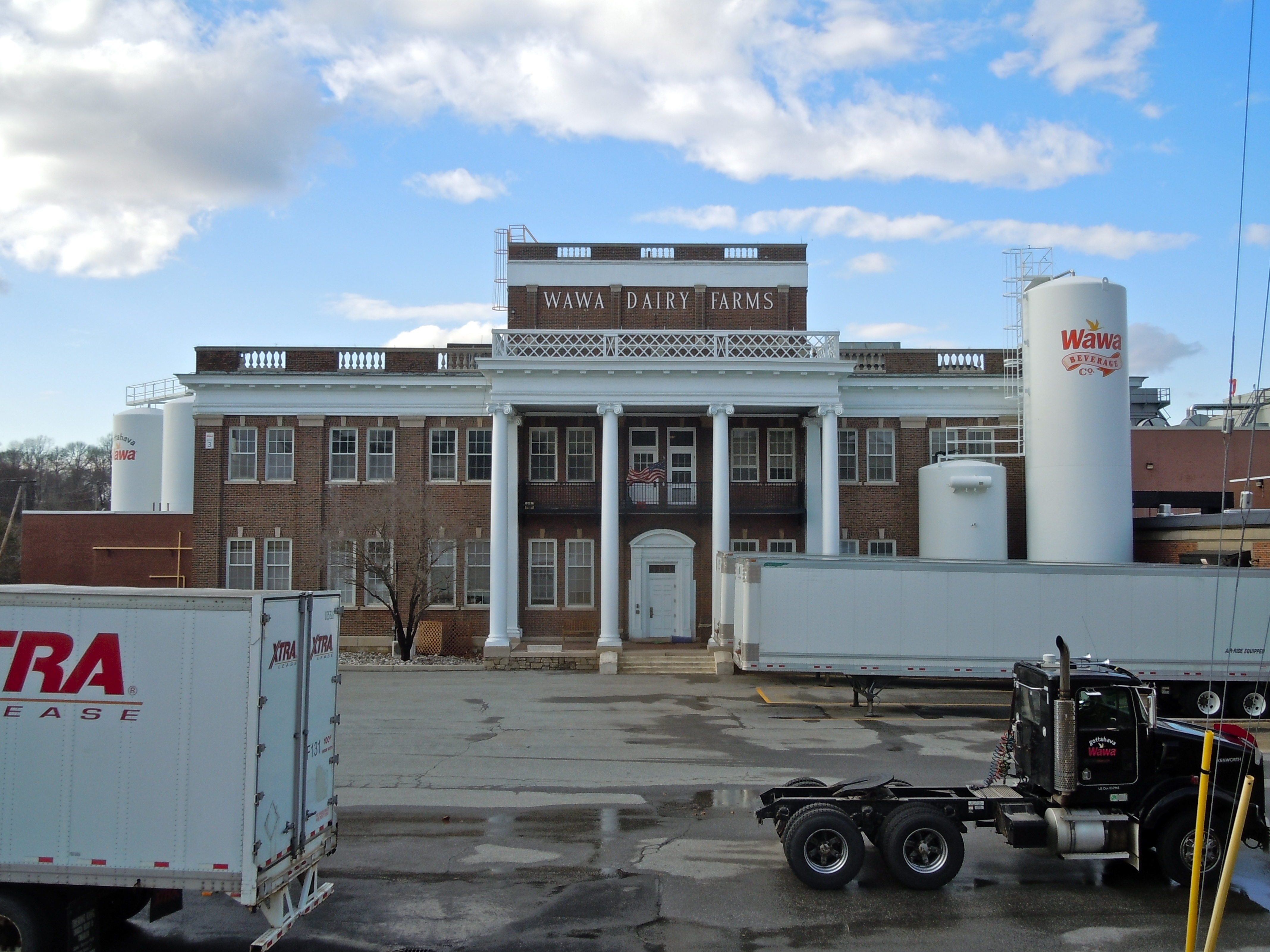 Wawa Dairy Farms building in "Wawa, PA" south of Media, Pennsylvania on Baltimore Pike (US 1) and Valley Drive, northwest corner (NWC). Building looks like it was built in 1920s or 1930s and is almost certainly the main building which Wawa Food Markets grew from. Still an operating plant, though there are no dairy farms in the area now.